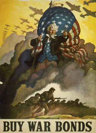 A vivid color poster from 1942 inspires American civilians to buy war bonds. The poster features a representation of Uncle Sam amid U.S. air and land forces, carrying a billowing American flag over his shoulder.